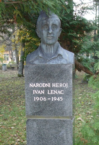 Bust of People's hero of Yugoslavia, Ivan Lenac, Park of the People's heroes in Delnice.